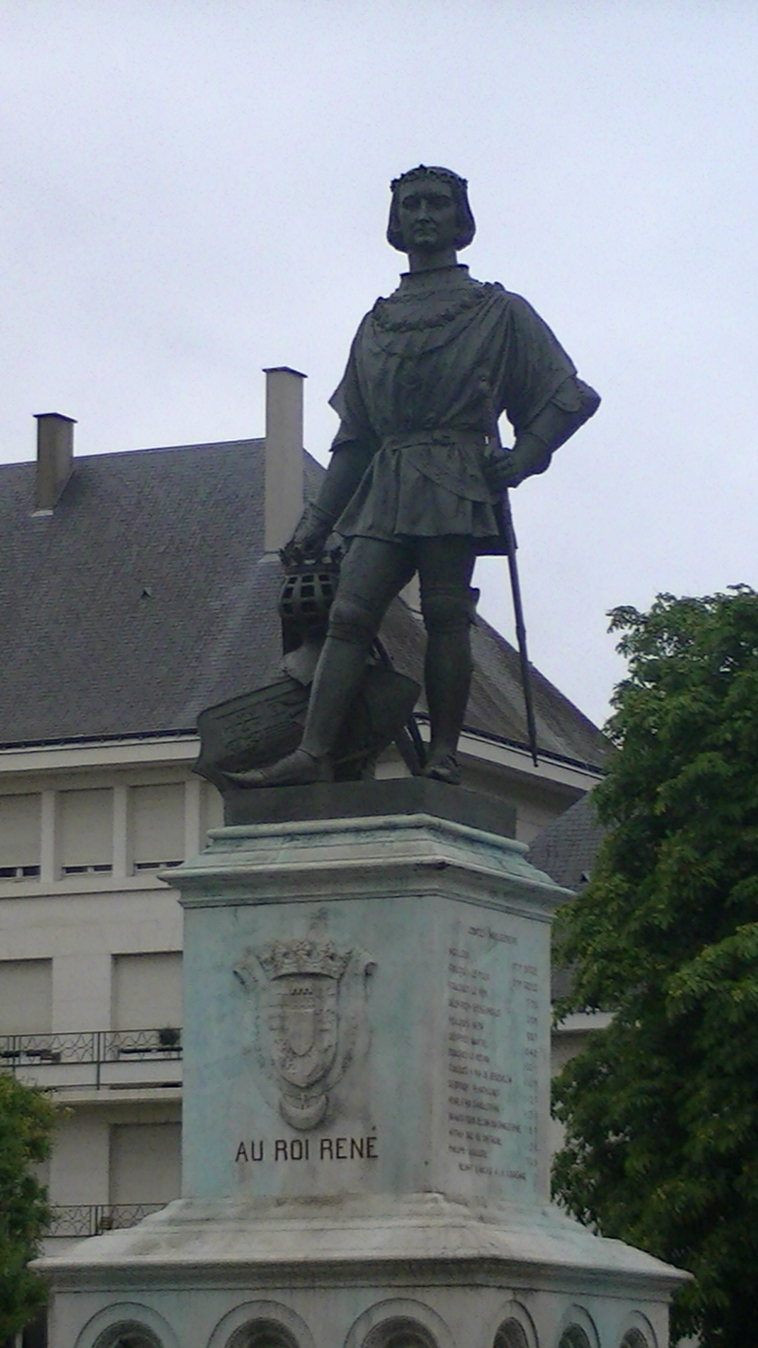 Statue of René of Anjou, King of Naples, in Angers